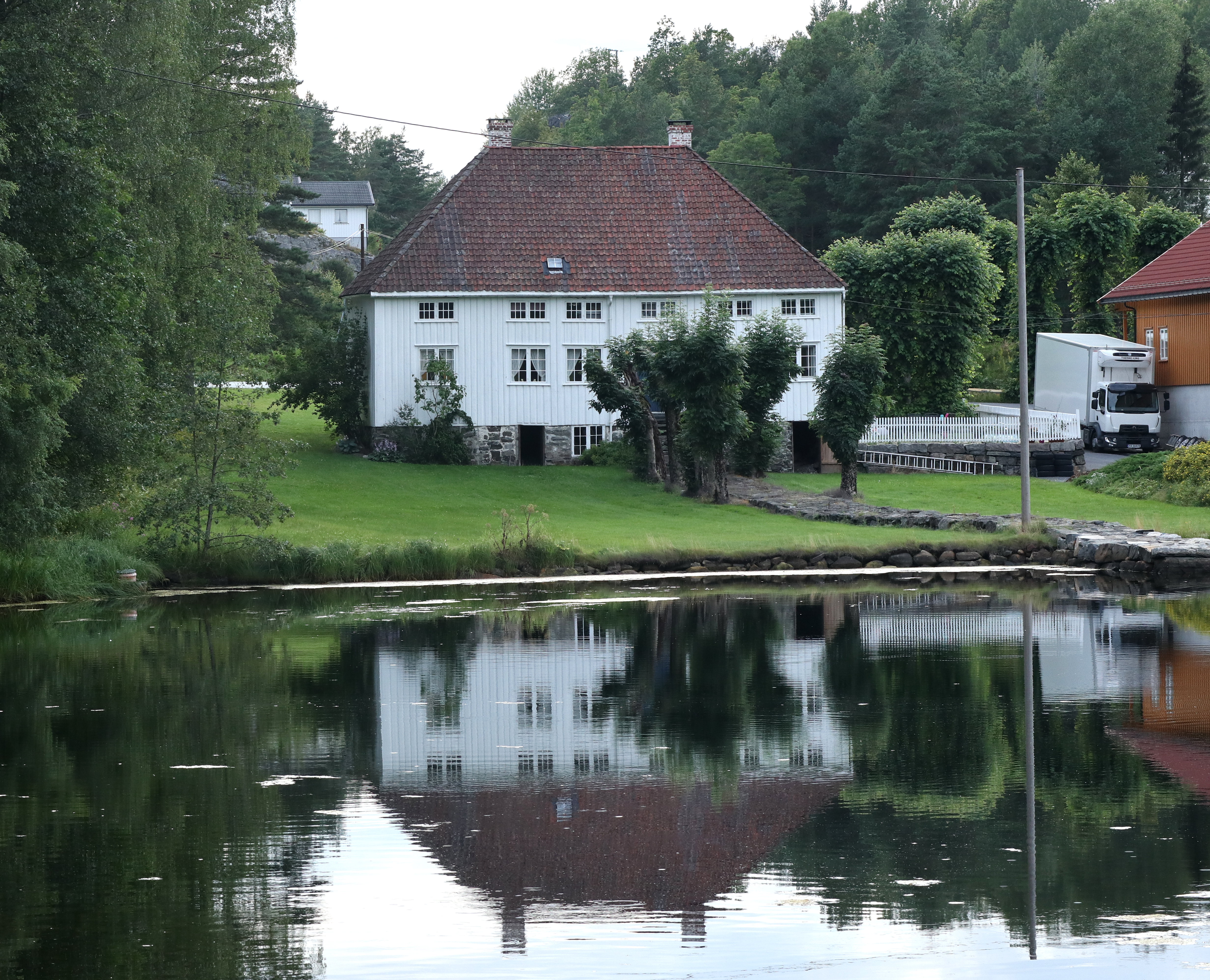 House in a garden.